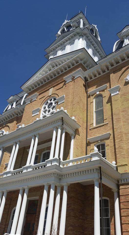 Exterior facade of Hilsdale College's clock tower (Central Hall) in April, 2016.